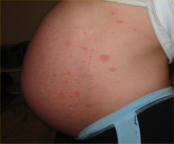 Left side view of the abdomen at nearly 36 weeks' gestation, on which the papules and plaques of PUPPP can clearly be seen. The patient's fundal height is above the 95th percentile, and the skin is quite distended (stretched). Skin distension is a common factor in PUPPP, which is more common in mothers carrying large babies, twins, and triplets. Although no stretch marks can be seen in this patient, the papules and plaques often first appear within stretch marks.